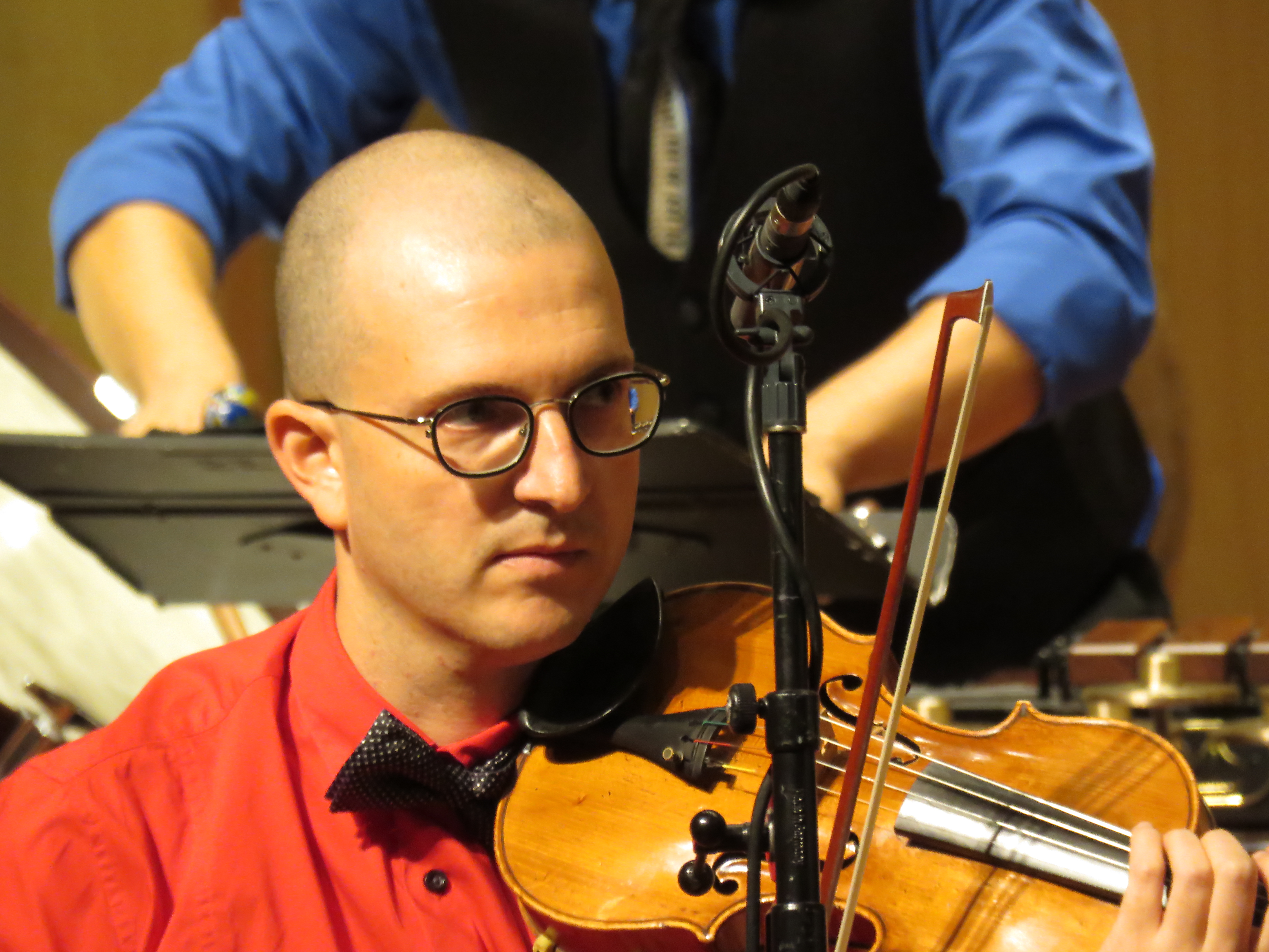 Meitar Ensemble at the Tel Aviv Museum of Art, September 2015